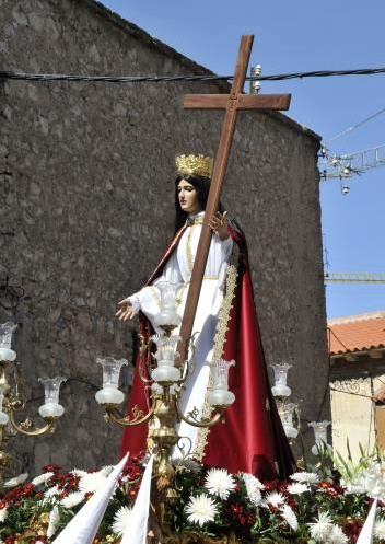 Santa Cruz y Santa Reina Elena.